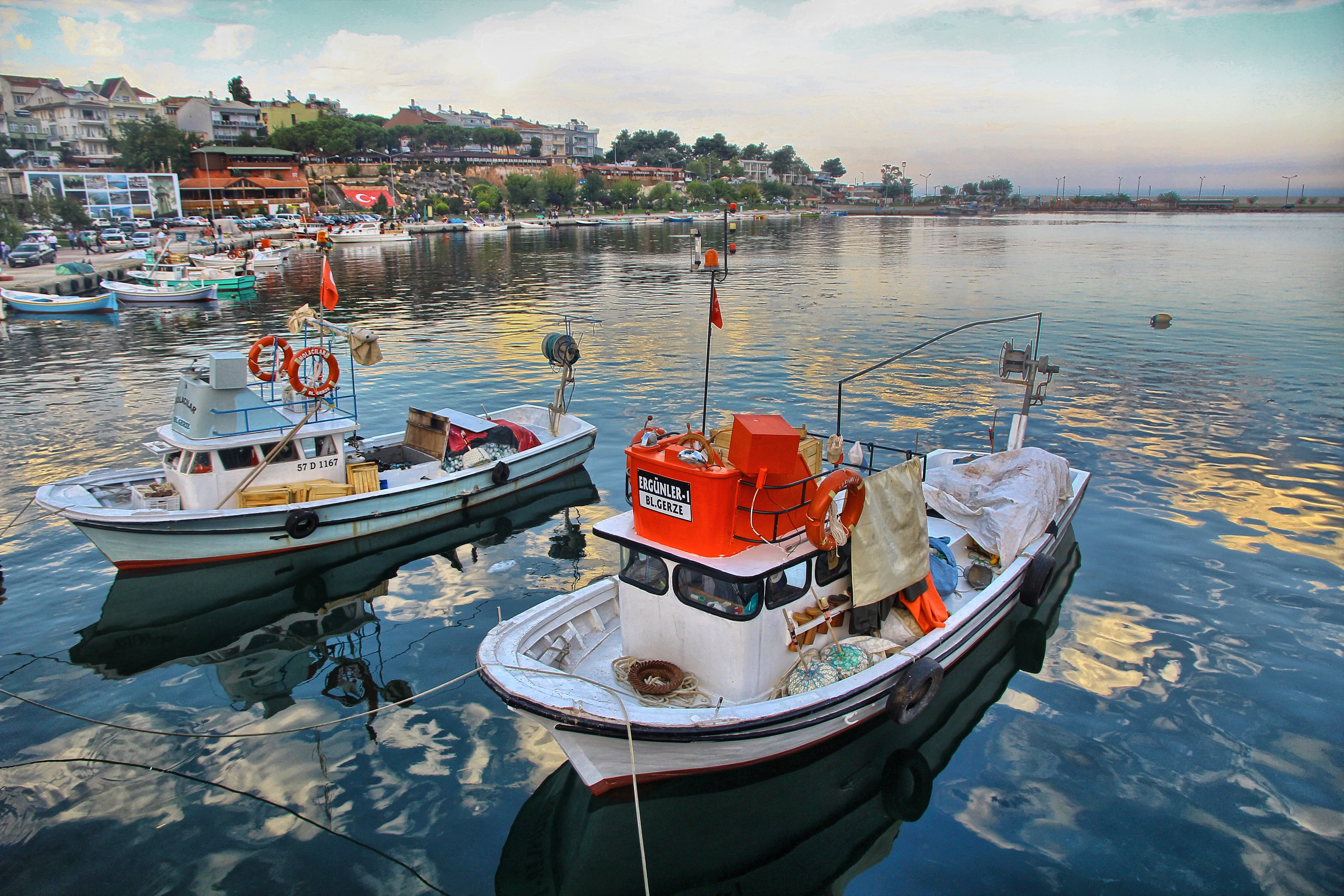 feel free to use my images. Just credit my name and link to my flickr account. Do not forget send a message to me :)